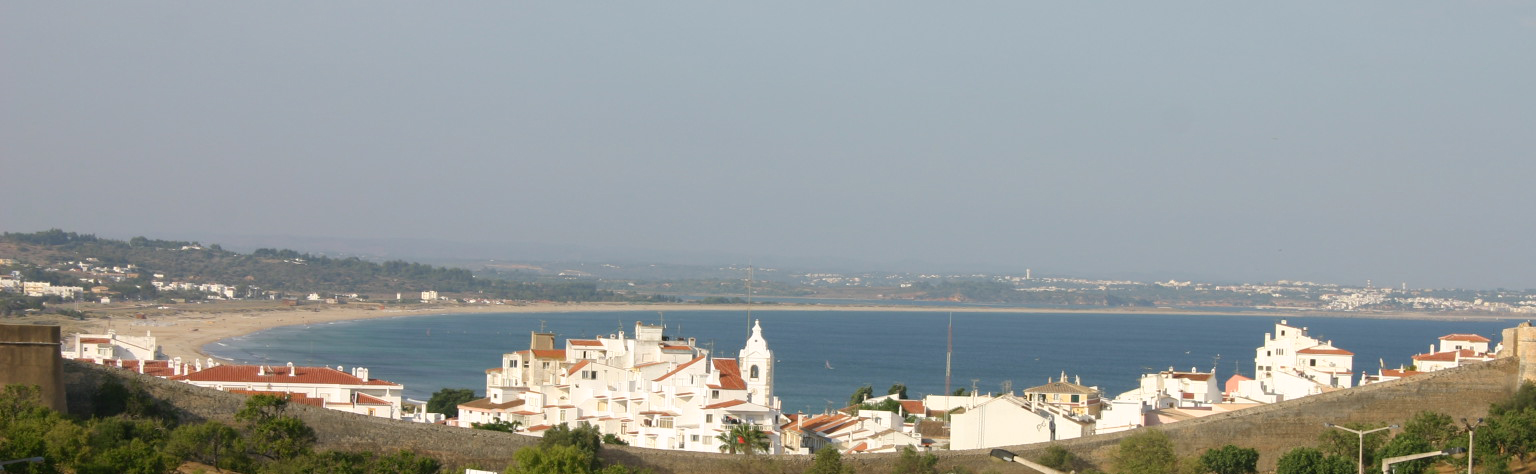 Author: António M.L. Cabral; Copy permited if the name of the author is included.